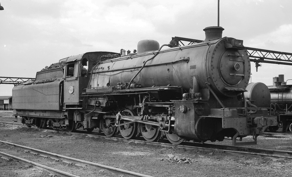 SAR Class S 365 (0-8-0) Location: Millsite, Krugersdorp, Transvaal